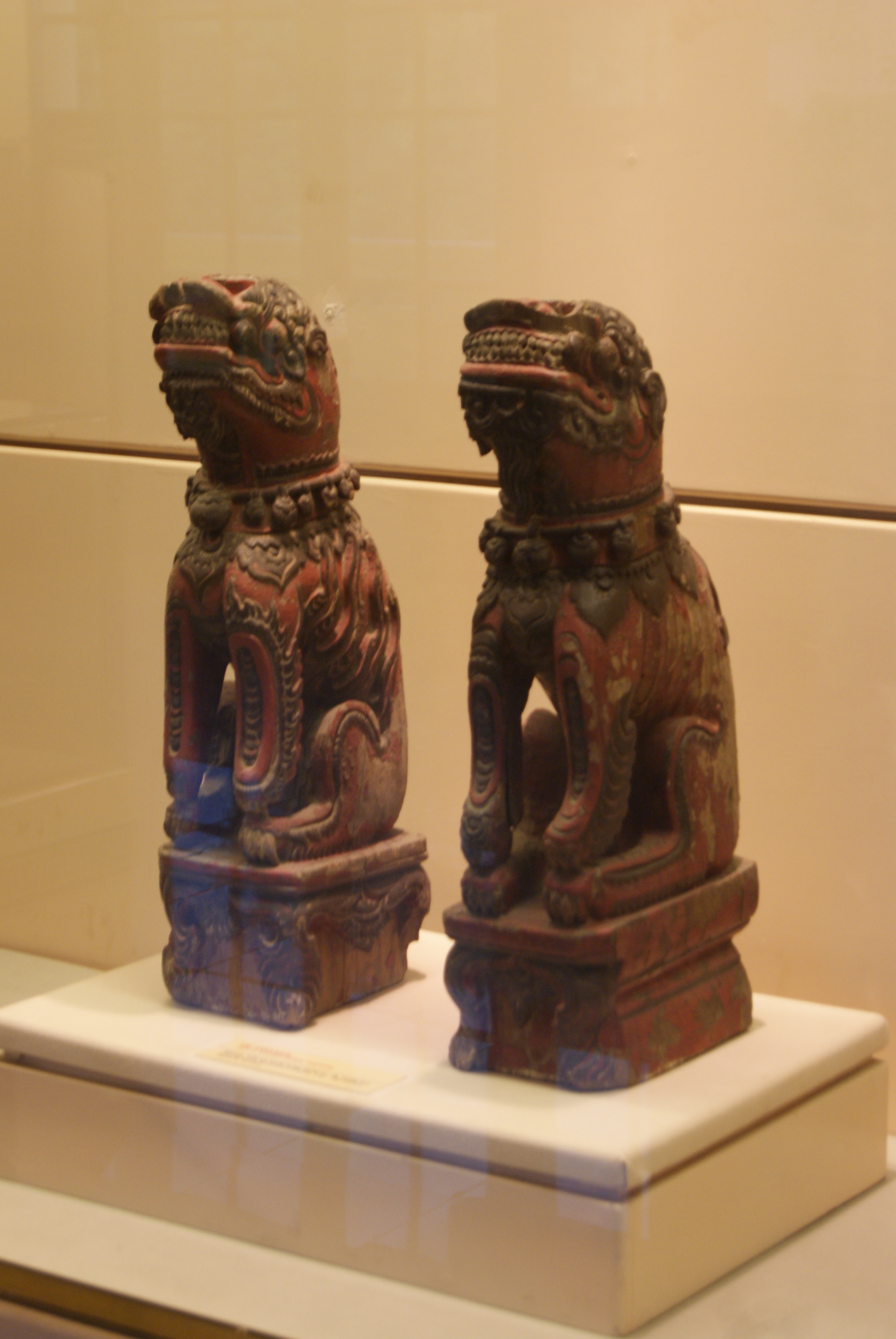 Nghe crimson and gilded wood